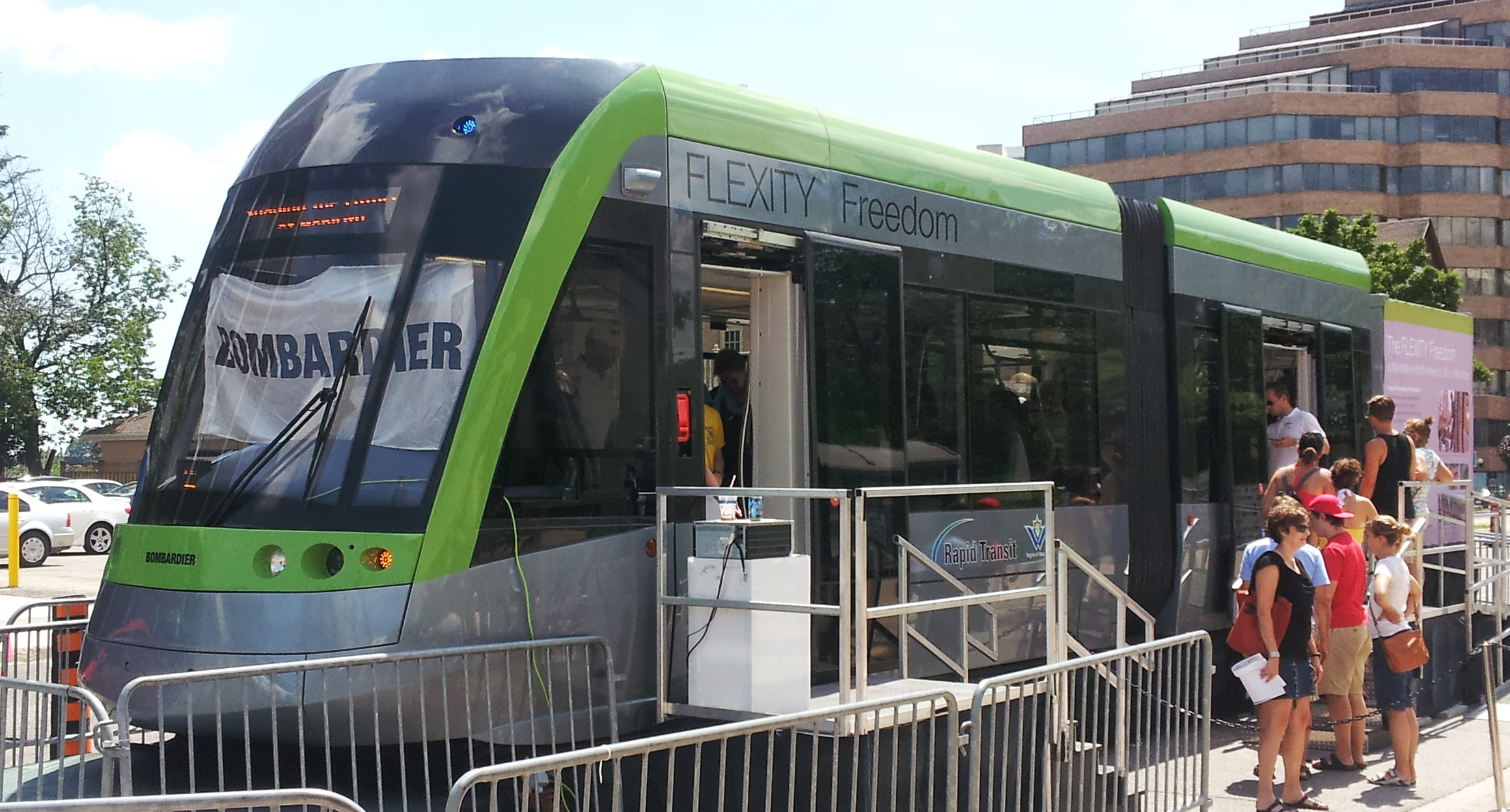 Demonstration mockup of Bombardier Flexity Freedom LRV, on display in Kitchener, Ontario, July 13, 2013.